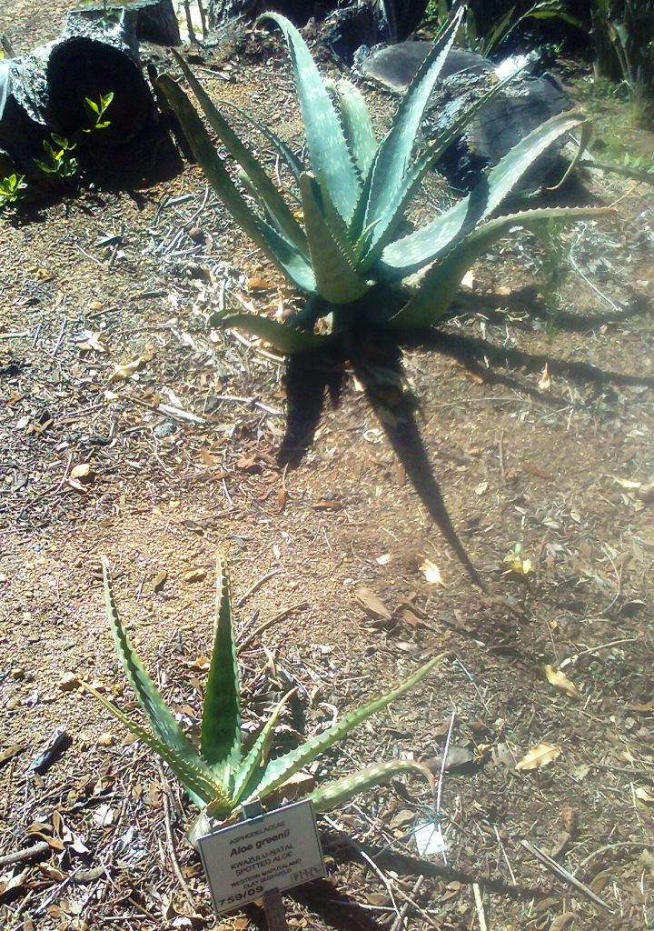 Aloe greenii - Spotted Aloe - Kwazulu Natal